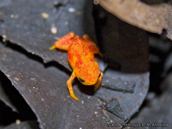 Brachycephalus pitanga, captive/collected, Museu de Zoologia da Universidade Estadual de Campinas 'Adão José Cardoso', Brazil